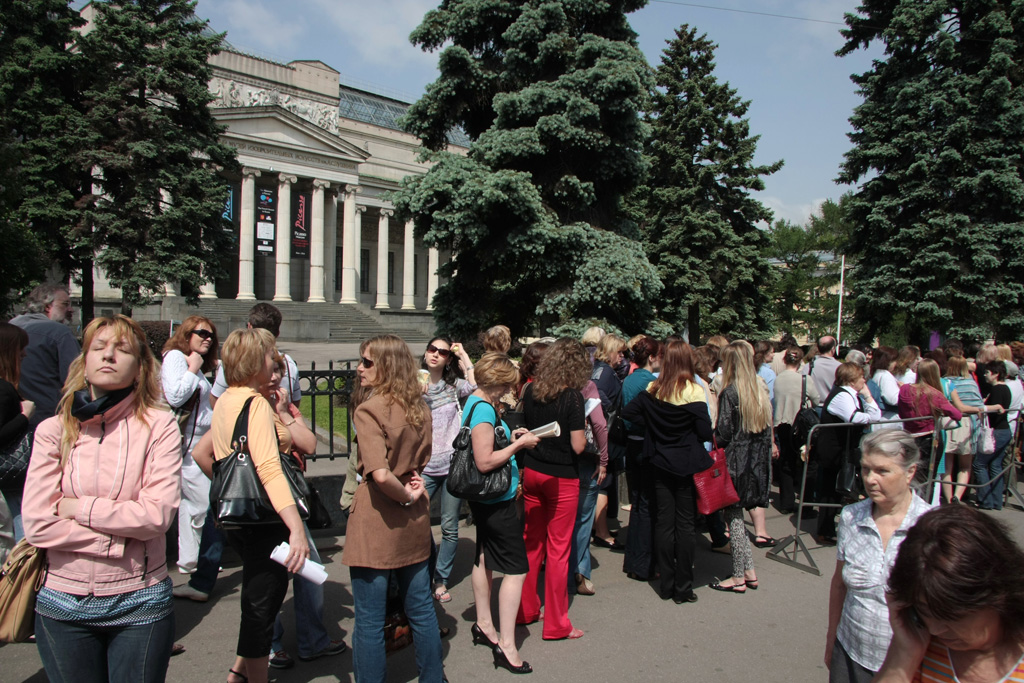 “May 18th - International Museum Day”. A line of people to the State Pushkin Fine Arts Museum on International Museum Day celebrated May 18th. Russian museums open their doors for anyone willing to visit.